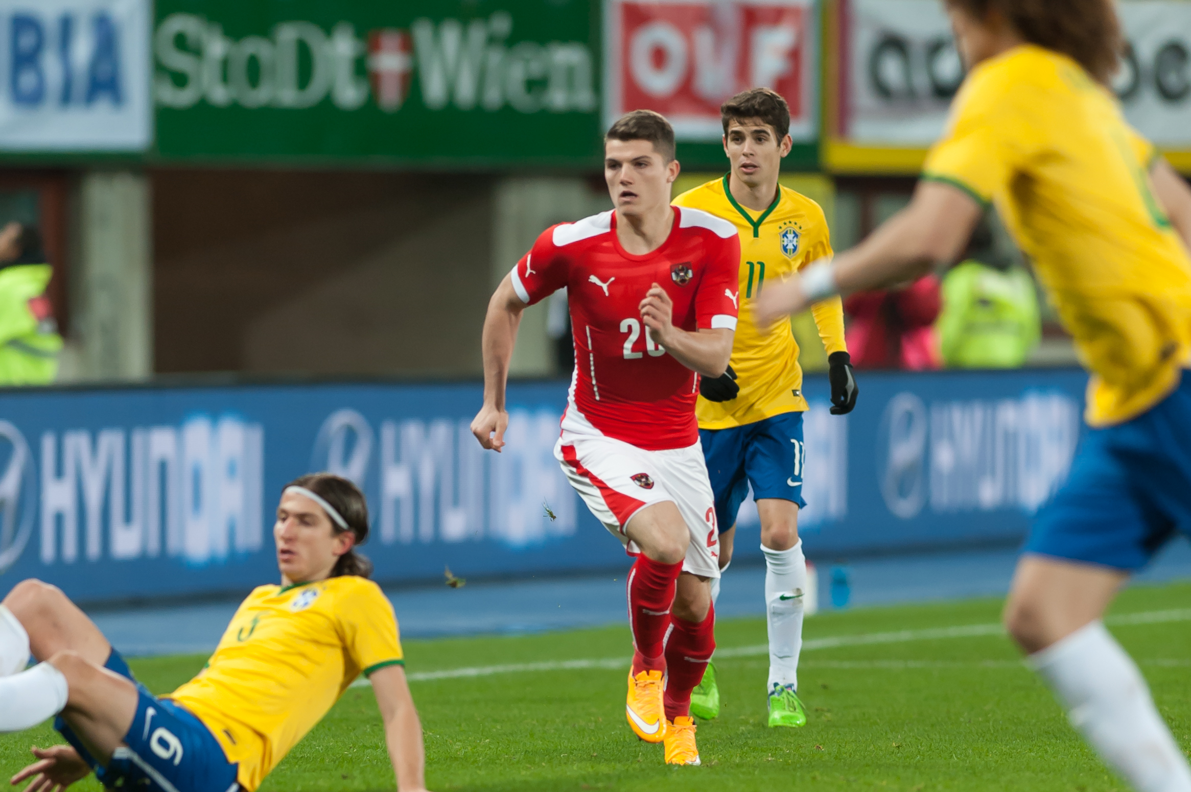 International Friendly Austria - Brazil November 18, 2014: Marcel Sabitzer, Oscar